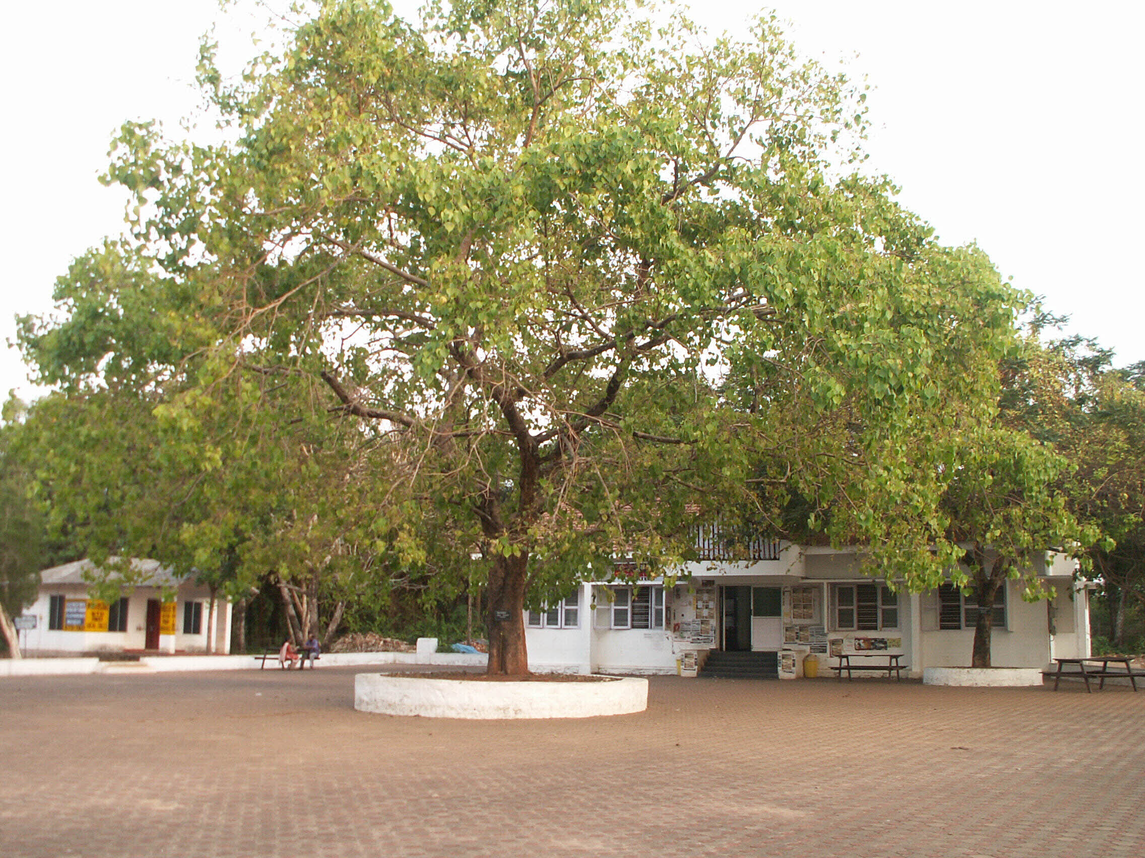 Cafeteria in the campus